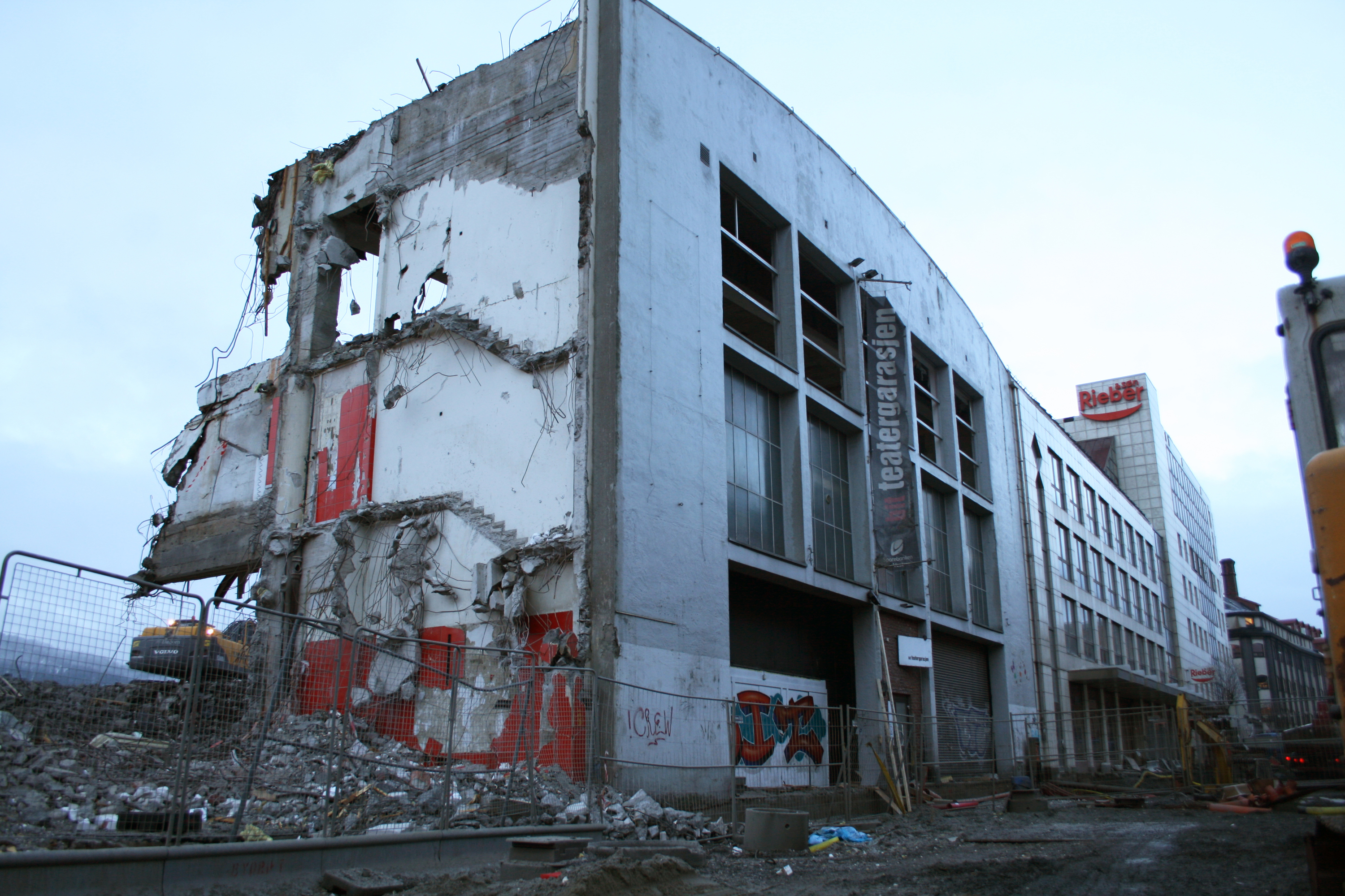 Photo of the arena Teatergarasjen in Nøstegaten, Bergen just days before demolition.